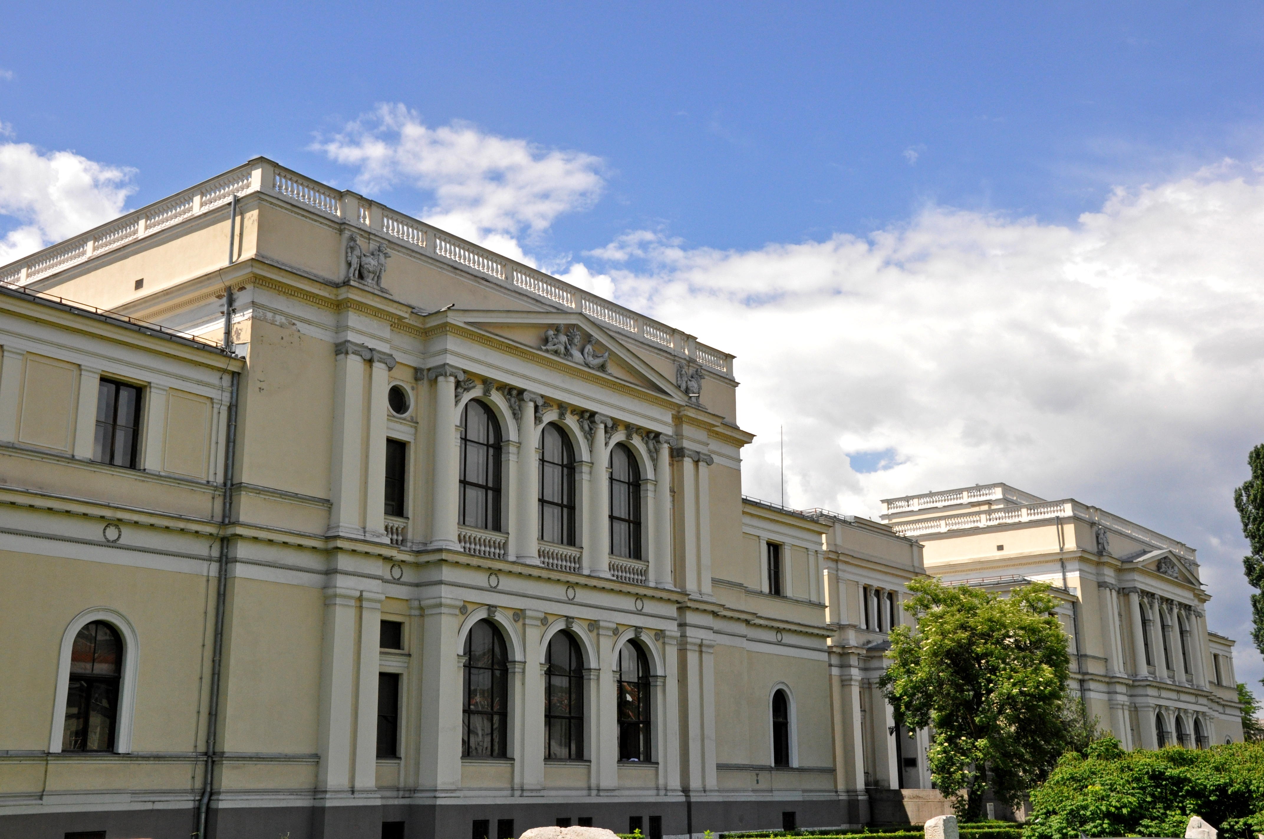 National Museum of Bosnia and Herzegovina